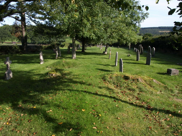 Cemetery, Tedburn St Mary This attractive cemetery lies in a long thin plot between hedges with fields on either side, running away from the road, and has existed since 1886.